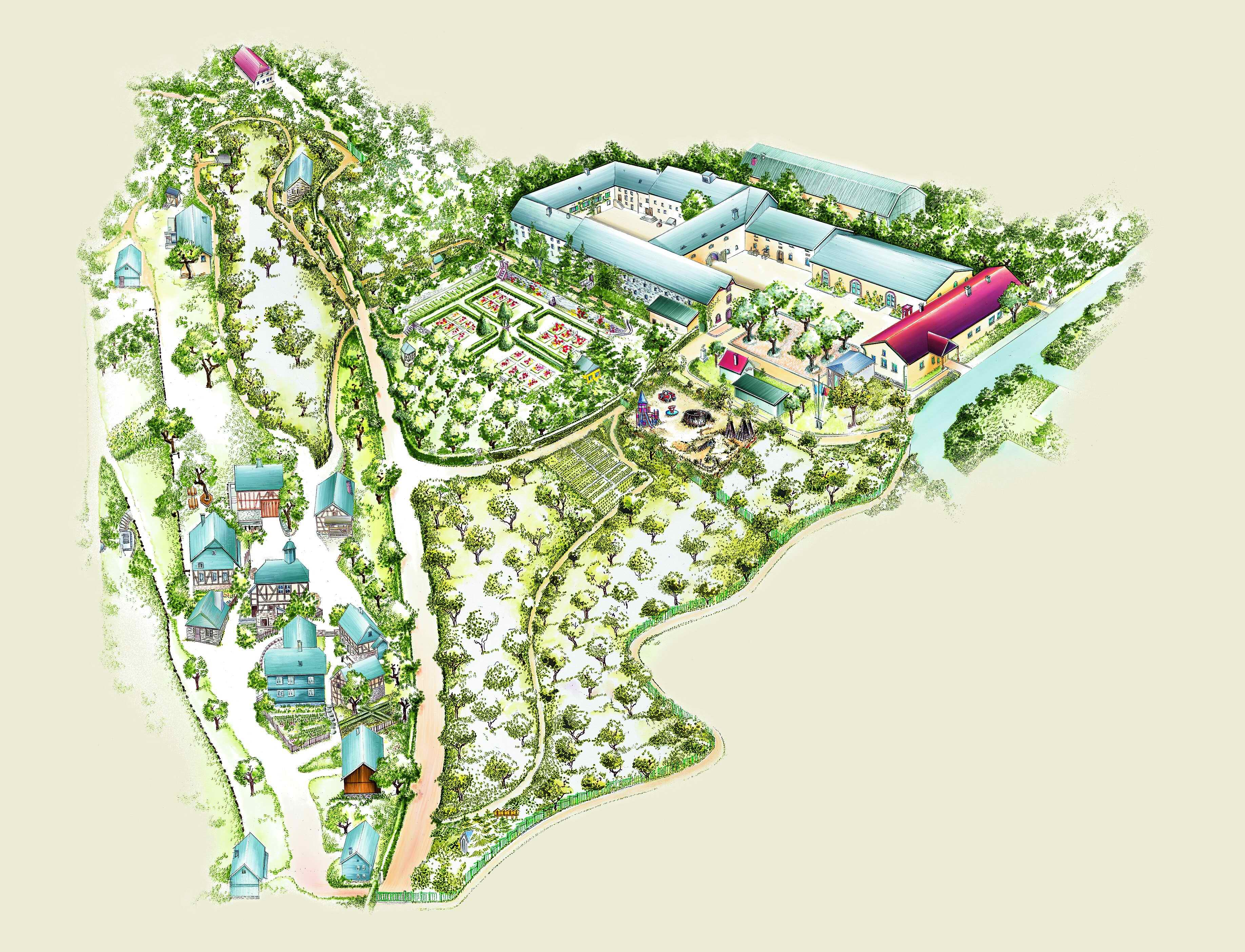 Open air museum Roscheider Hof, map of the museum